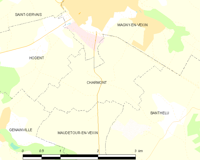 Map of French municipality Charmont